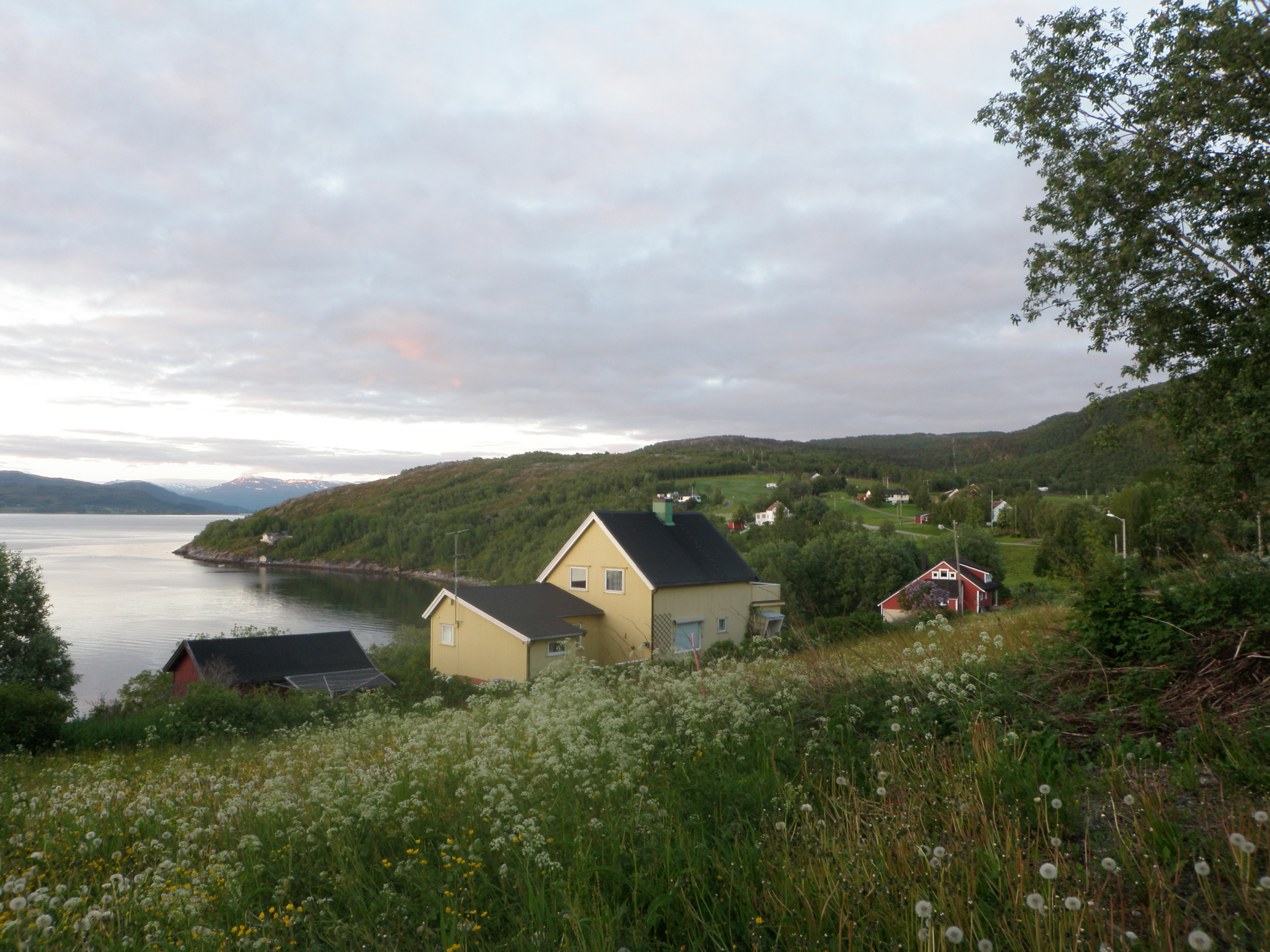 View of the village of Skjerstad in Bodø, Nordland, Norway, as seen from Skjerstad Church.